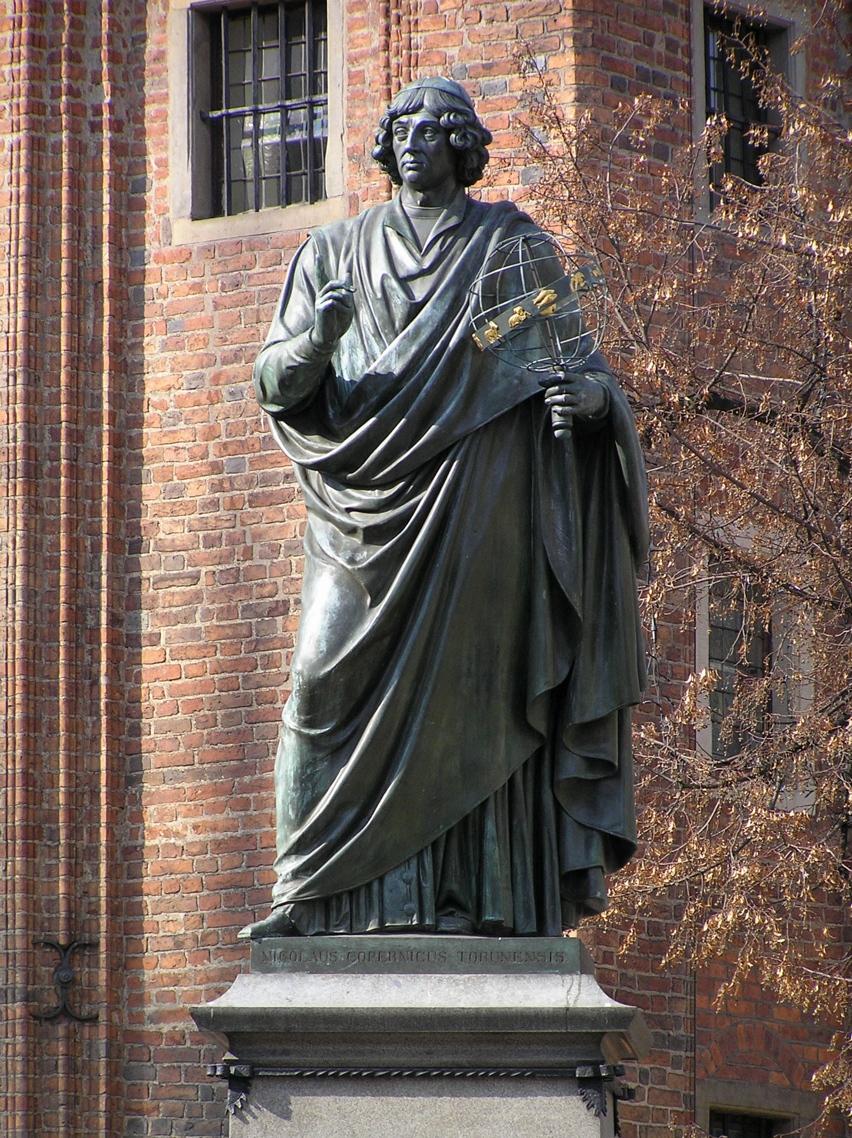 Toruń, Nicolaus Copernicus Monument